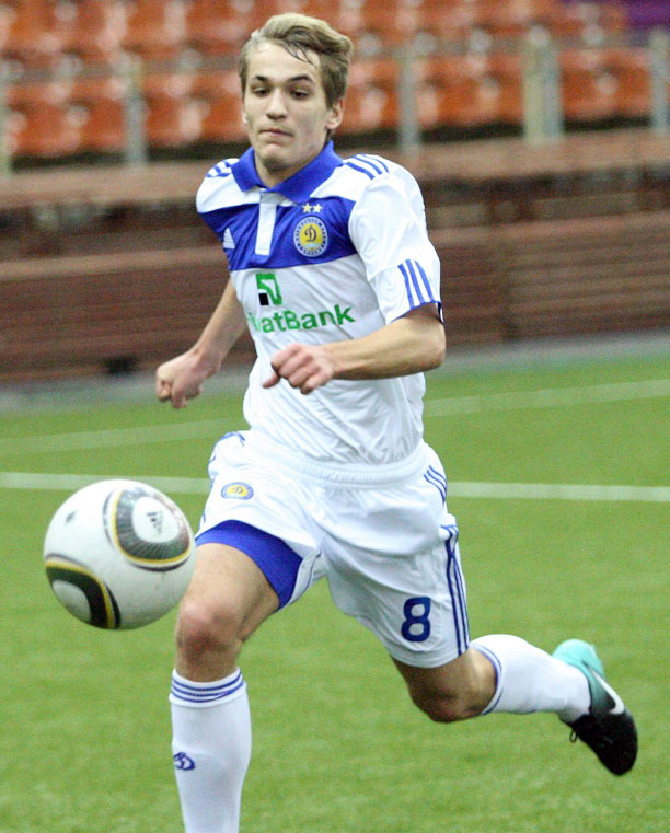 Yevheniy Makarenko, Ukrainian footballer, during the game for Dynamo Kyiv